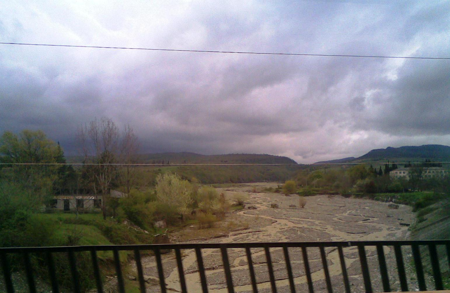 river Vantiskhevi